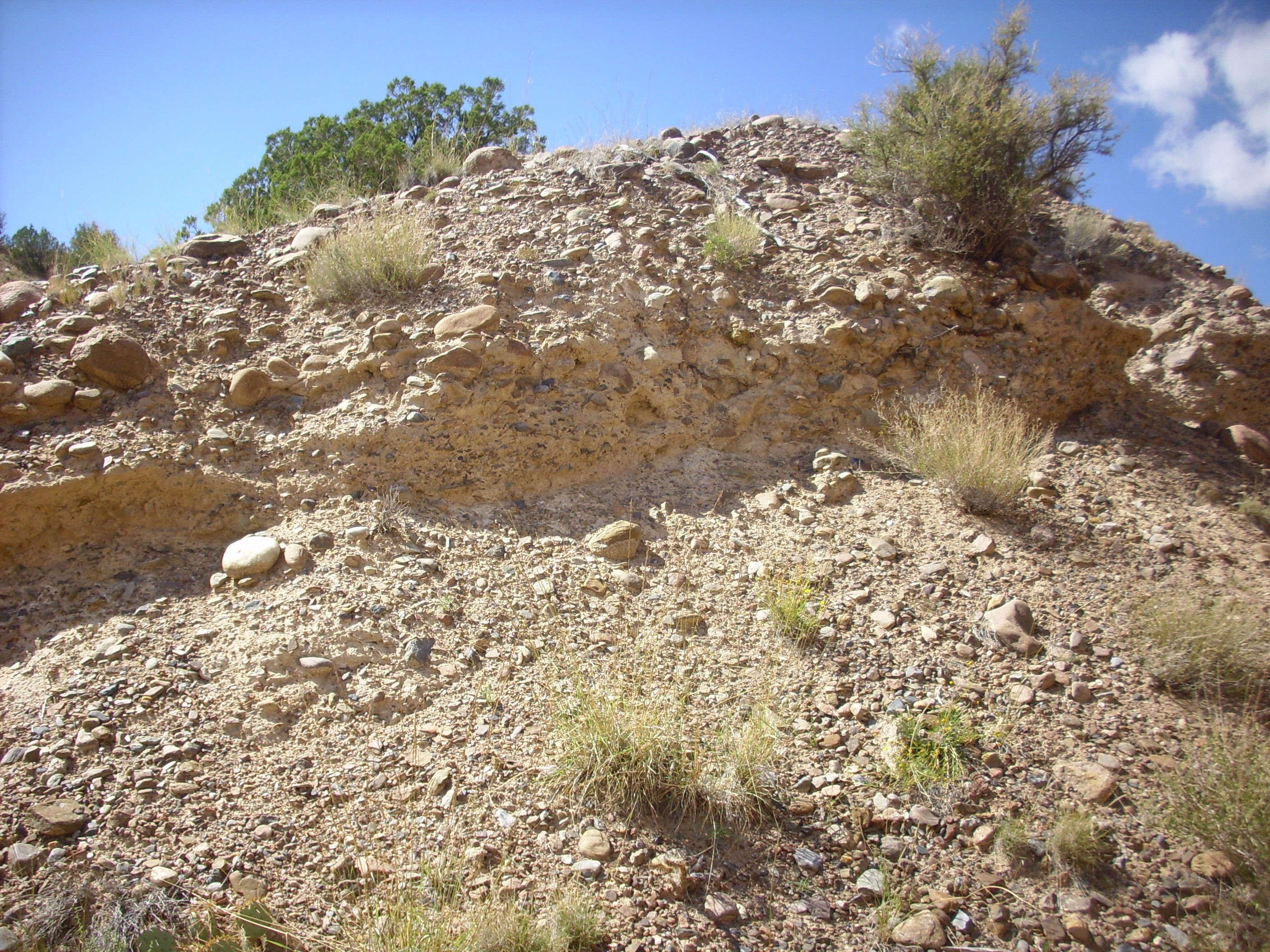 This image shows an exposure of the Ritito Conglomerate along Red Wash, New Mexico, United States. The Ritito Conglomerate is a Oligocene? geologic formation.